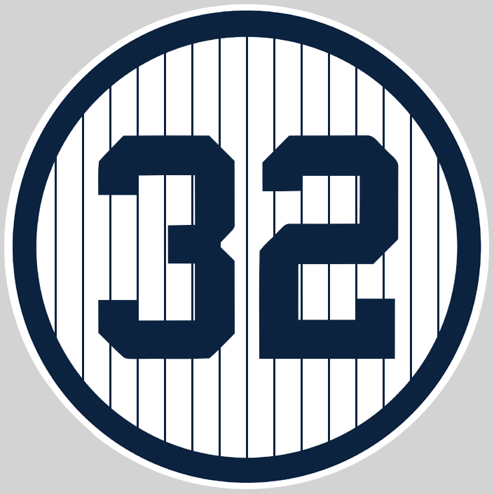 Image represents the current version of Elston Howard's No. 32 seen in Monument Park in Yankee Stadium